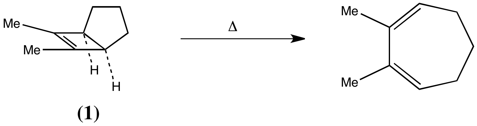 Anti-Woodward-Hoffmann electrocyclic ring opening reaction induced by steric strain.